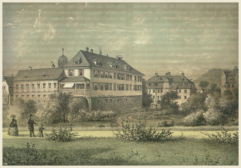 The Lengsfeld castle.